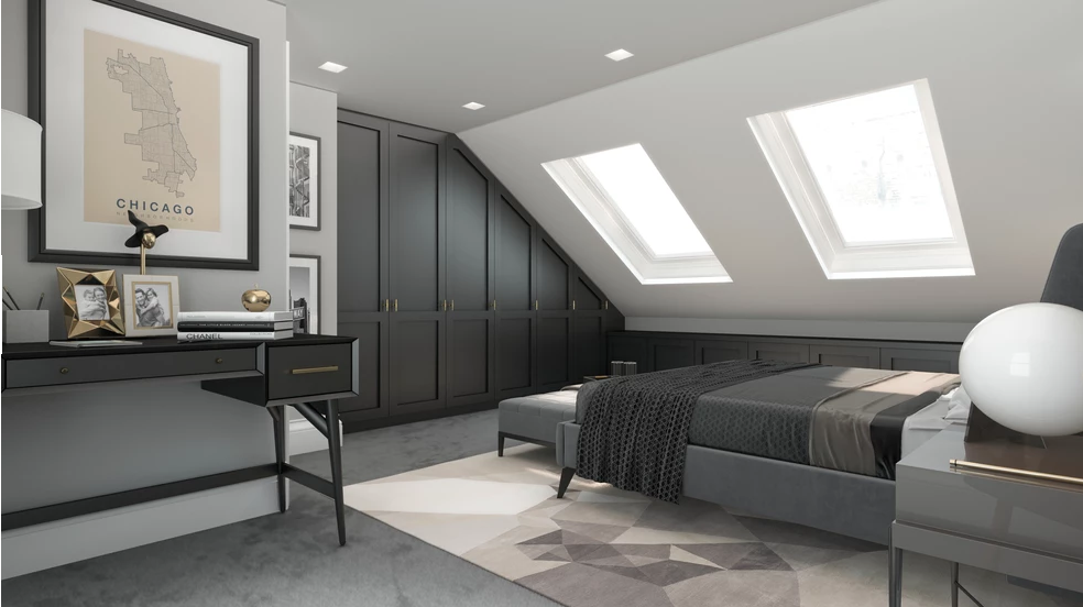 Nu Projects converted the loft area of a West London home into a bedroom.